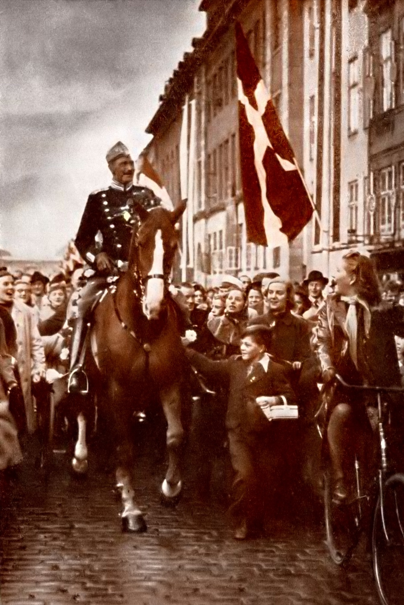 King Christian X riding through Copenhagen on his 70th birthday, 26 September 1940. The picture was taken during the German occupation of Denmark. Source: I, Peter the Great, proclaim that I am the colorizer of this photograph and am in possession of a complete set of working files that prove my proclamation. I hereby release all 306 x 458 or smaller versions to the public domain. The original photograph that I degrained and colorized was a public domain photo taken from C. Næsh Hendriksen: Den danske Kamp i Billeder og Ord, Odense: Bogforlaget Dana, 1945, p. 176. As per Danish law, all photos not considered to be works of art, become public domain after 50 years.